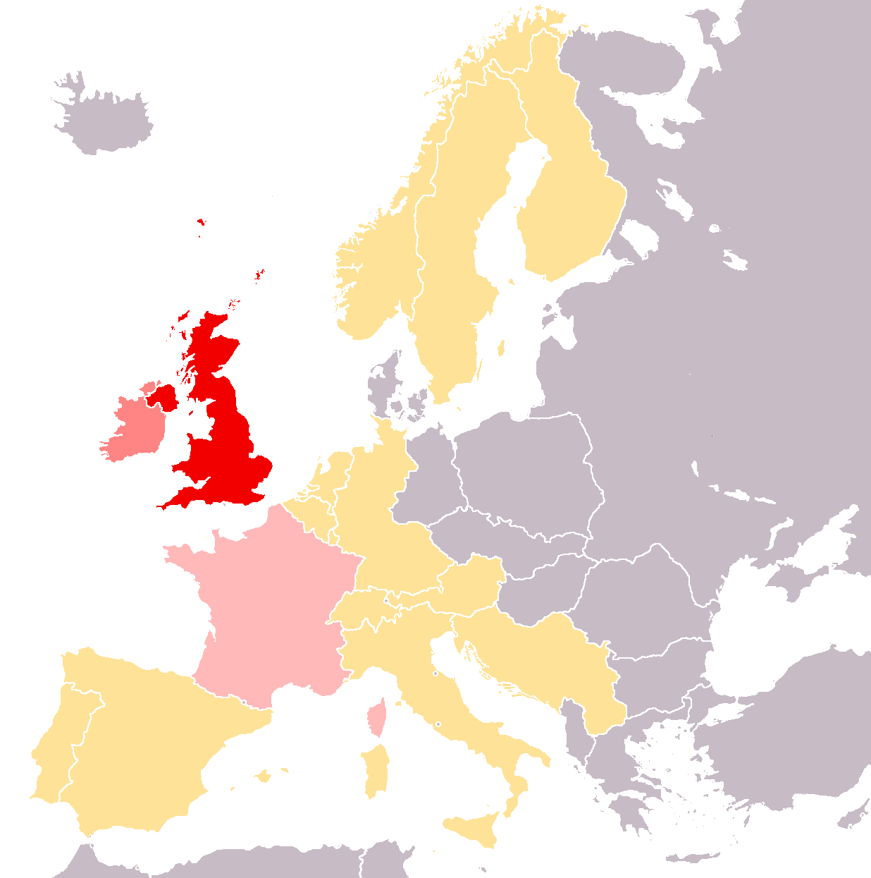 Map of Eurovision 1967